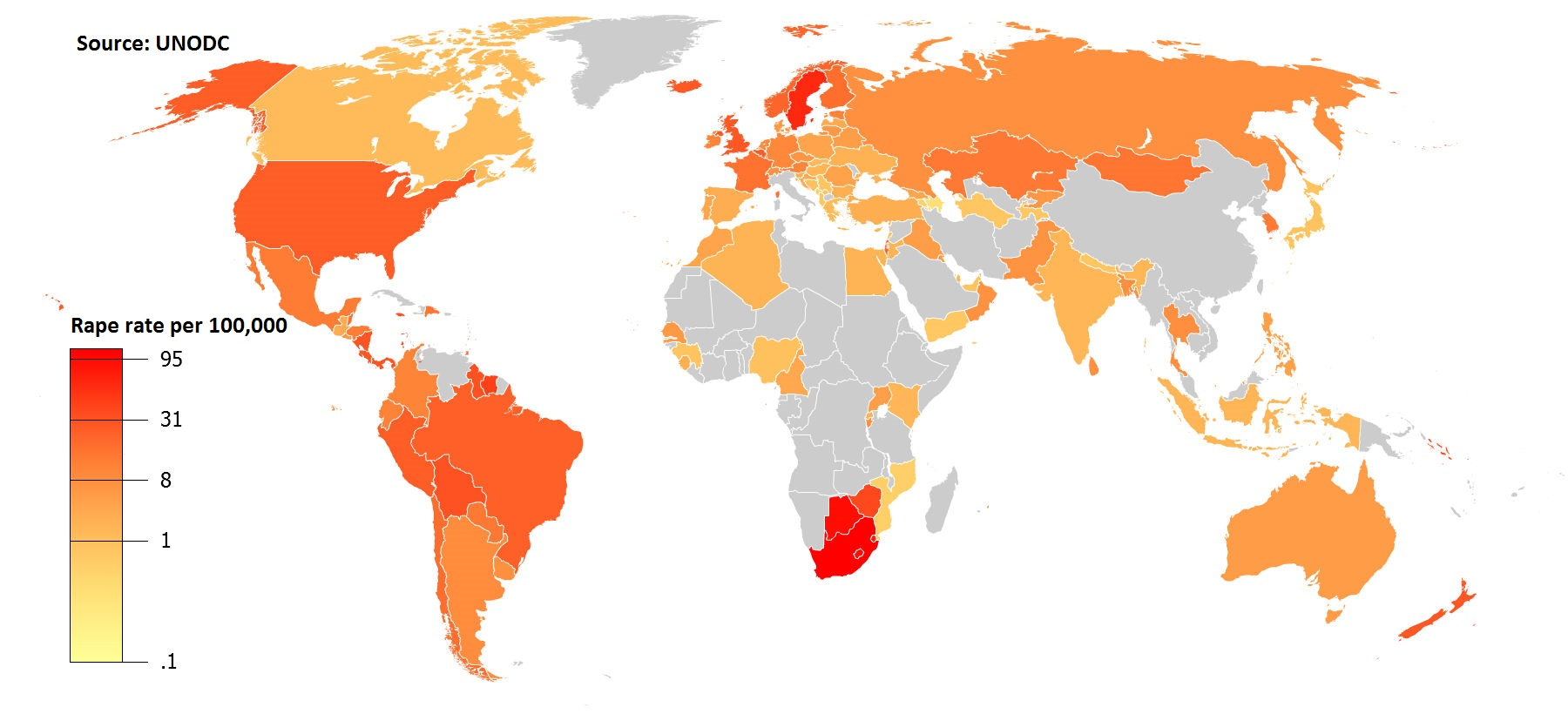 Reported rape rate per 100,000 people, select countries of the world 2010-2012 Gray color: data not provided by the country Definition: “Rape” means sexual intercourse without valid consent. Note that not all rapes are reported, and that not all legal systems count rape the same way, and the actual rates may differ starkly from the reported rates. This may give incorrect impressions about the real number of rapes in countries like Sweden. (Excludes sexual assault and attempted rape cases - see separate map for this) Source: United Nations Office on Drugs and Crime Violación tasa por cada 100.000 personas, seleccione los países del mundo Taux de viol par 100.000 personnes, certains pays du monde This map was created with GunnMapGunnMap was created by Arthur Gunn and is available, free, at and attribute by linking to